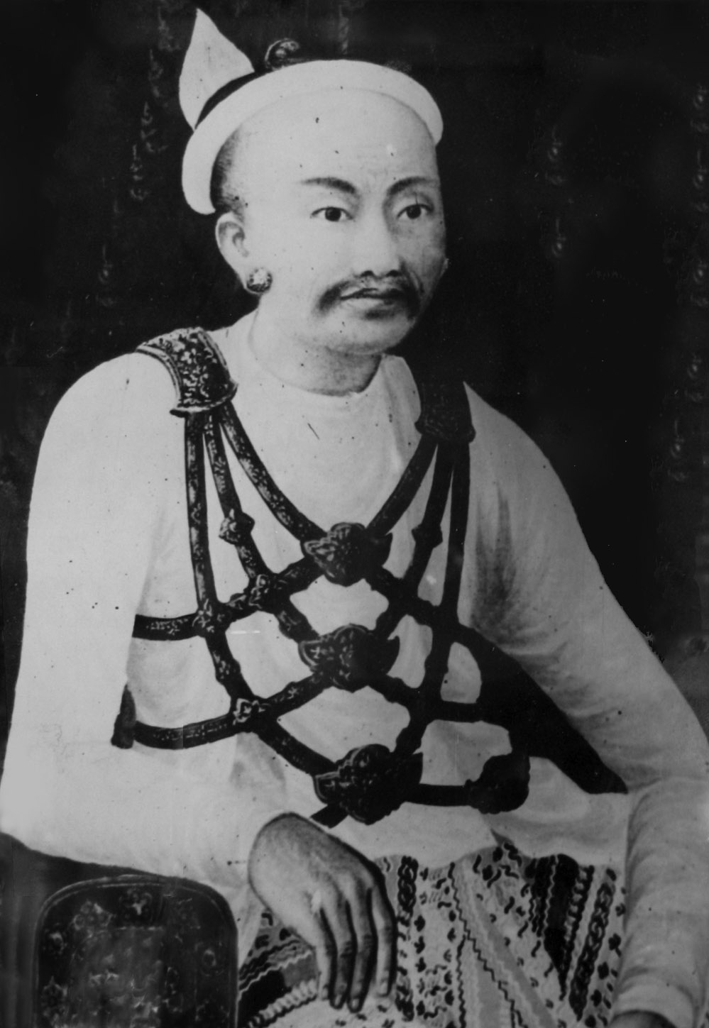 Portrait of King Mindon on display at Mandalay Palace